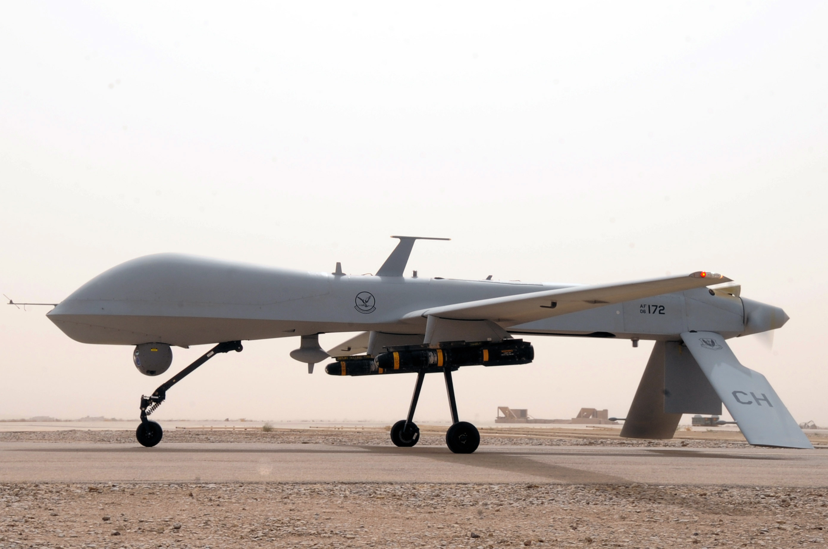 An MQ-1B Predator unmanned aircraft from the 361st Expeditionary Reconnaissance Squadron takes off July 9 from Ali Base, Iraq, in support of Operation Iraqi Freedom.